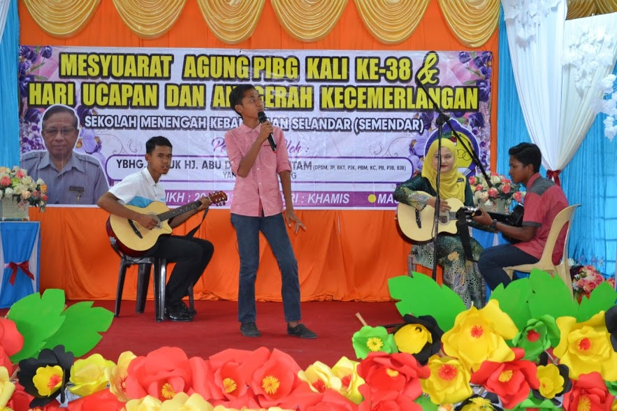 GAMBAR 19